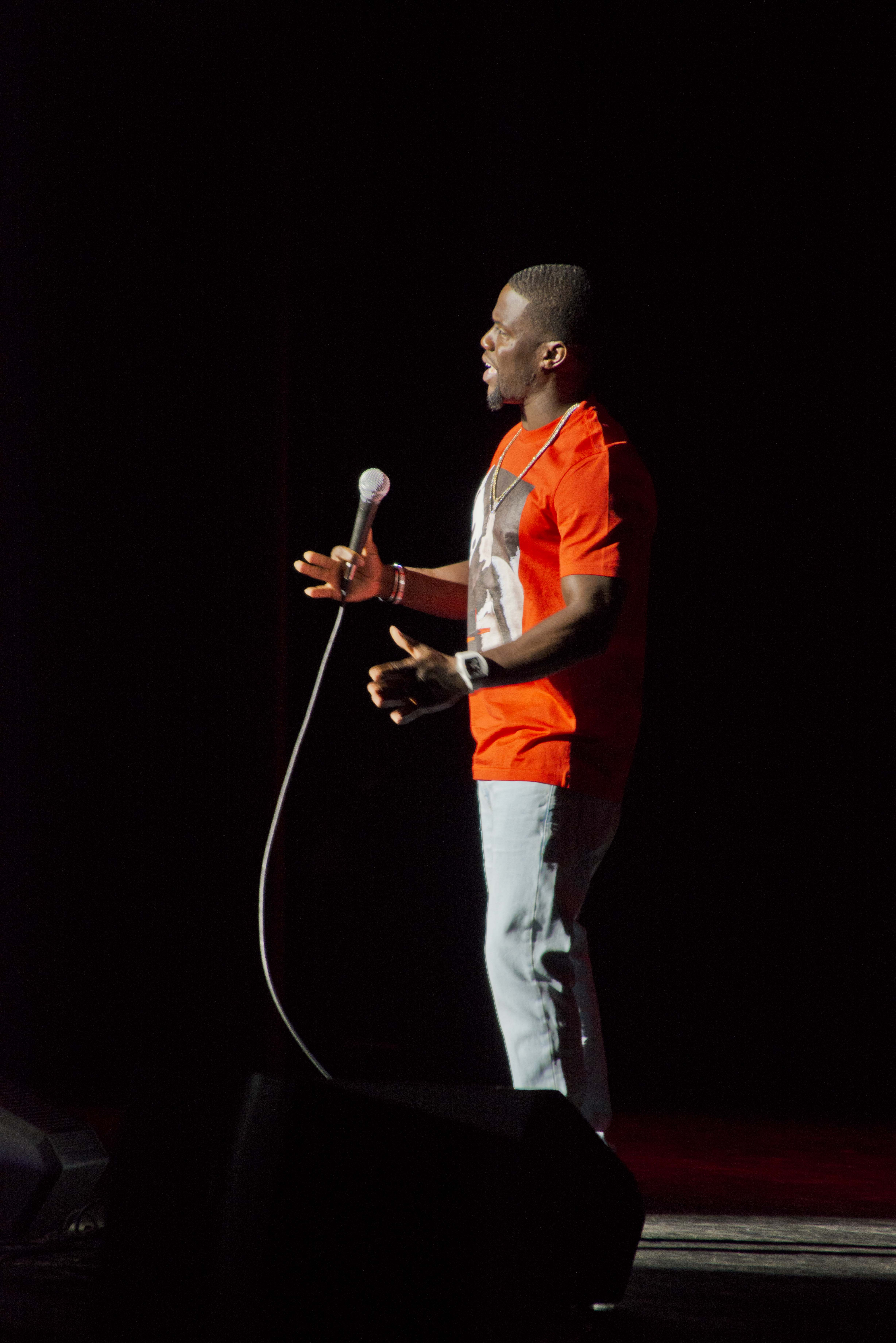 MSC Town Hall and Wiley